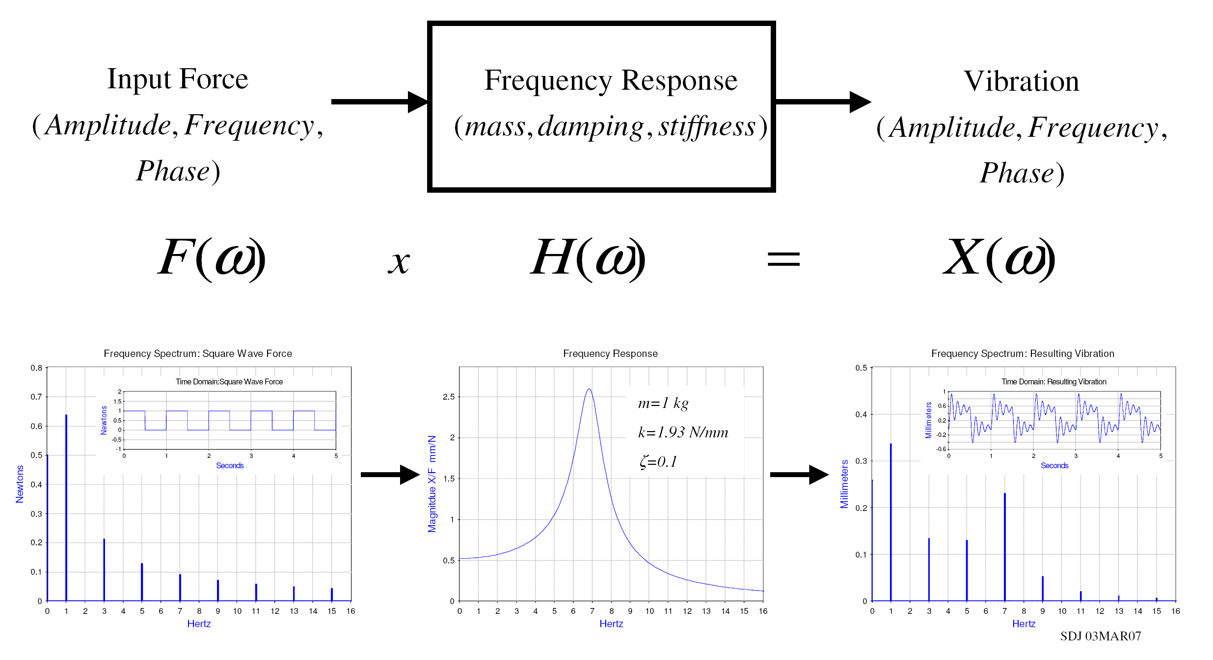 lzyvzl For use in Vibration article